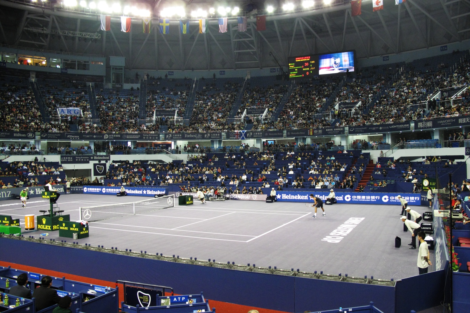 Match underway between Jo-Wilfried Tsonga and Juan Martín del Potro at 2008 Tennis Masters Cup in Shanghai, China